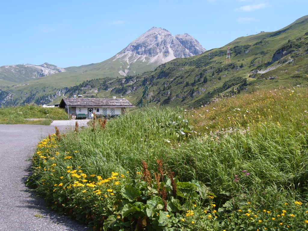 Flexen Pass with Flexen-Häusl, Vorarlberg, Austria. View to the northeast with the Rüfispitze (2632 metres in height), a summit in the Lechtal Alps in the middle. On the left one can see the Rüfikopf (2362 metres), with aerial lift connection to Lech am Arlberg. In front of the Rüfikopf is the Monzabonalpe (1979 m.ü.A.), on the right one can see the lift station at the Trittalpe